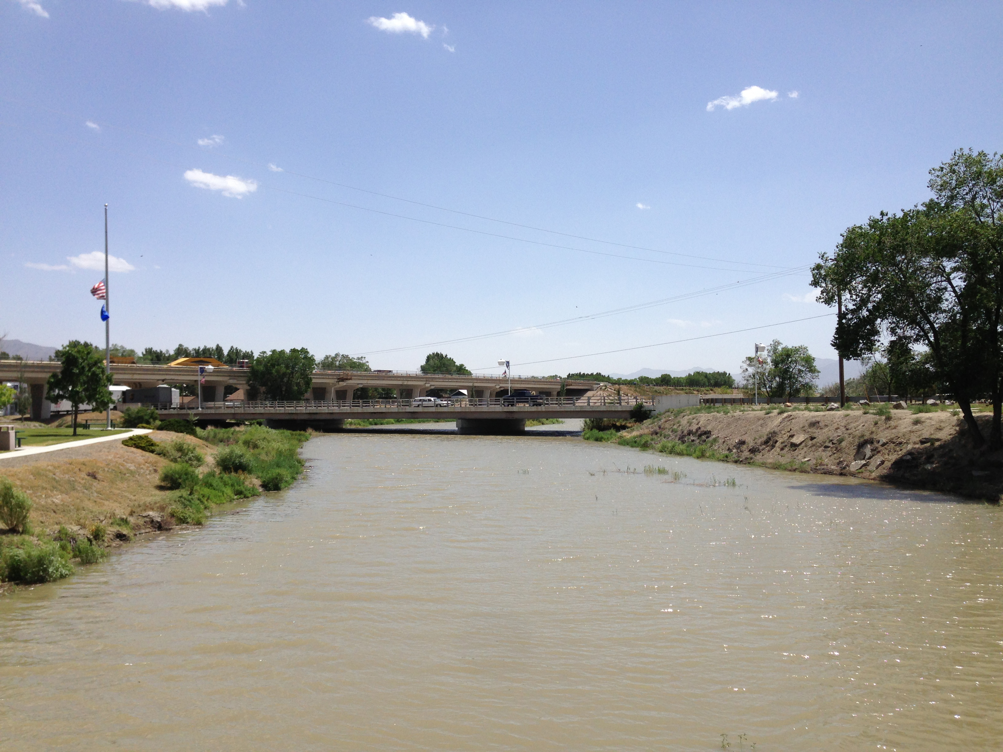 View down the Humboldt River from Bridge Street in Winnemucca, Nevada